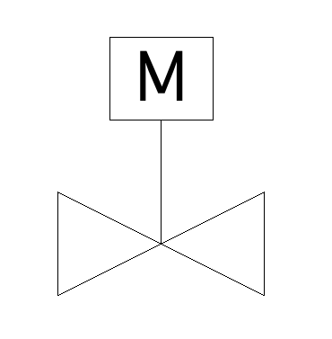 Symbol for motor operated valve on P&ID